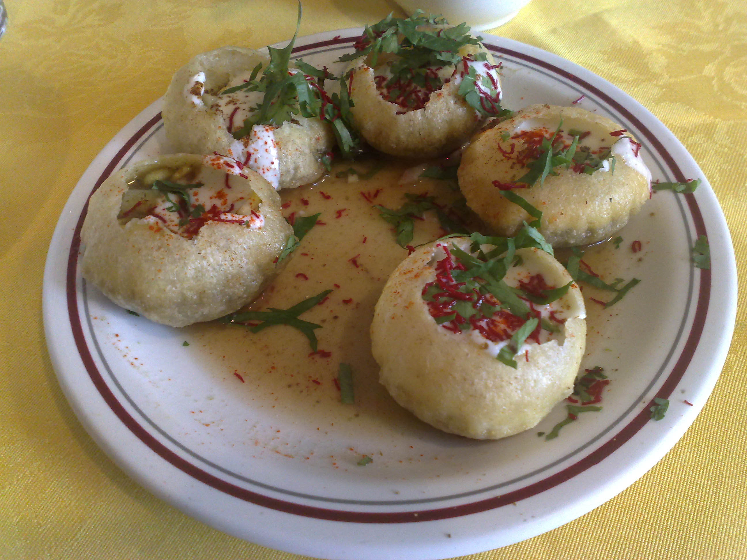 Kastoori, Tooting "Puri filled with potatoes, chick peas, puffed rice, onions"